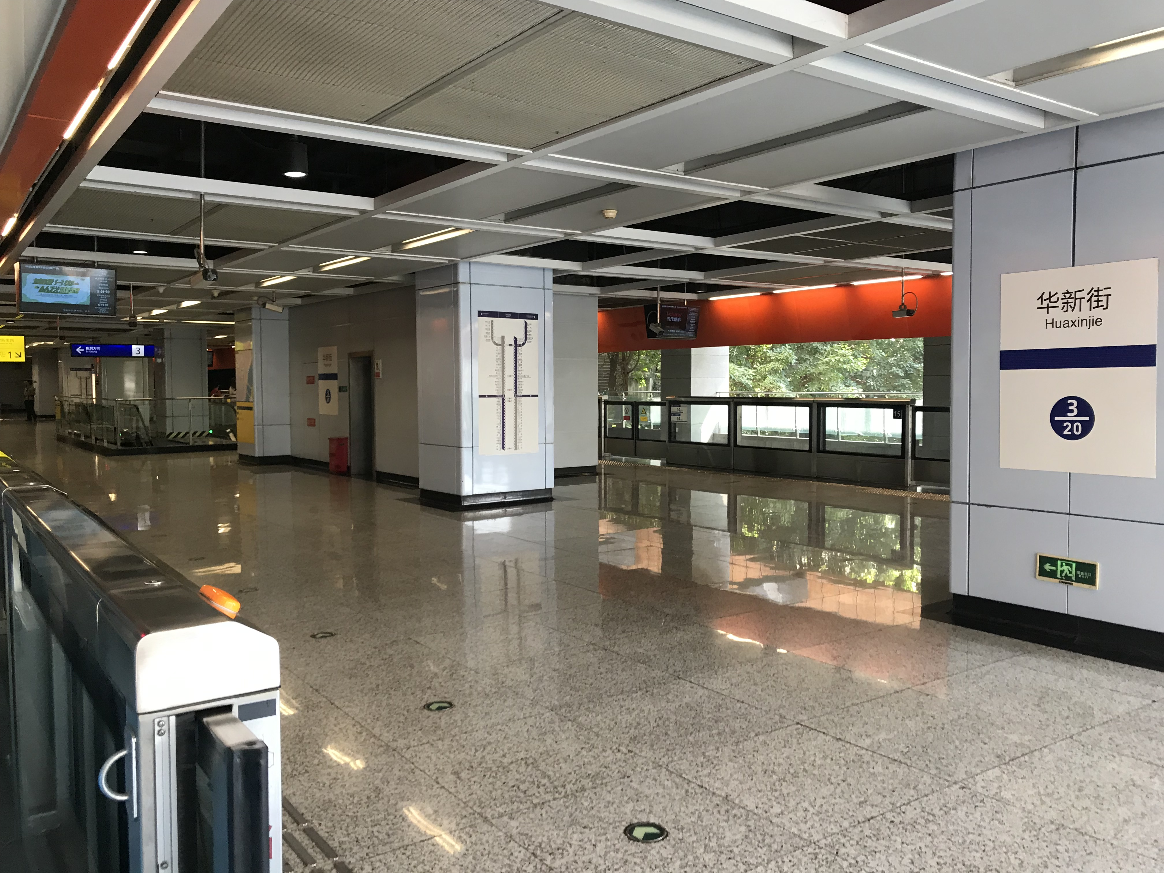 201908 Platform of Huaxinjie Station